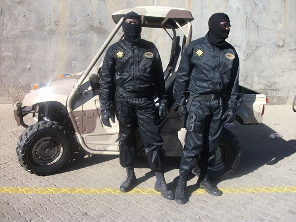 Here are members of the Namibian Police Force Special Reserve Force-Counter Terrorist Unit (CTU).